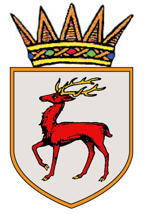 Simple arms of The MacCarthy Mórs, former Kings of Desmond, and, in prior times, Kings of Munster (in Ireland).